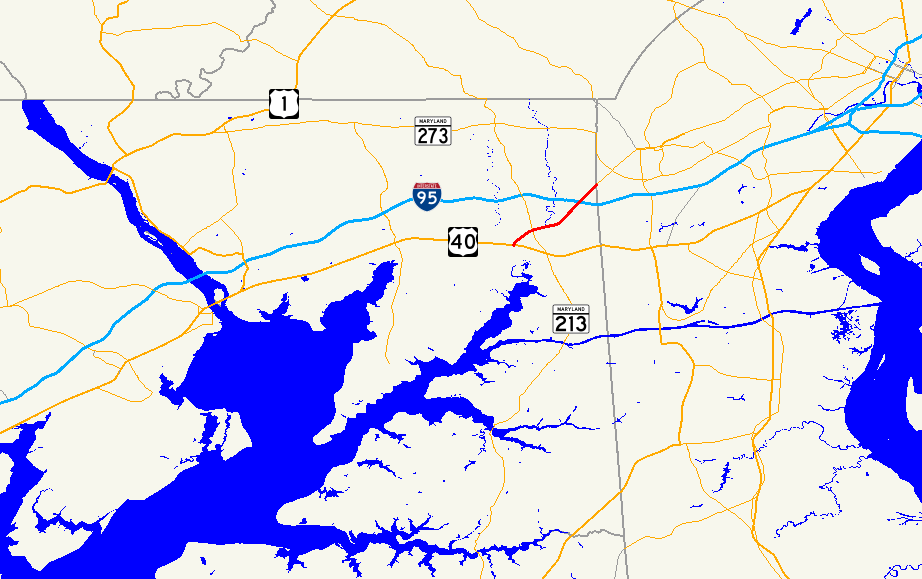 Map of Maryland Route 279